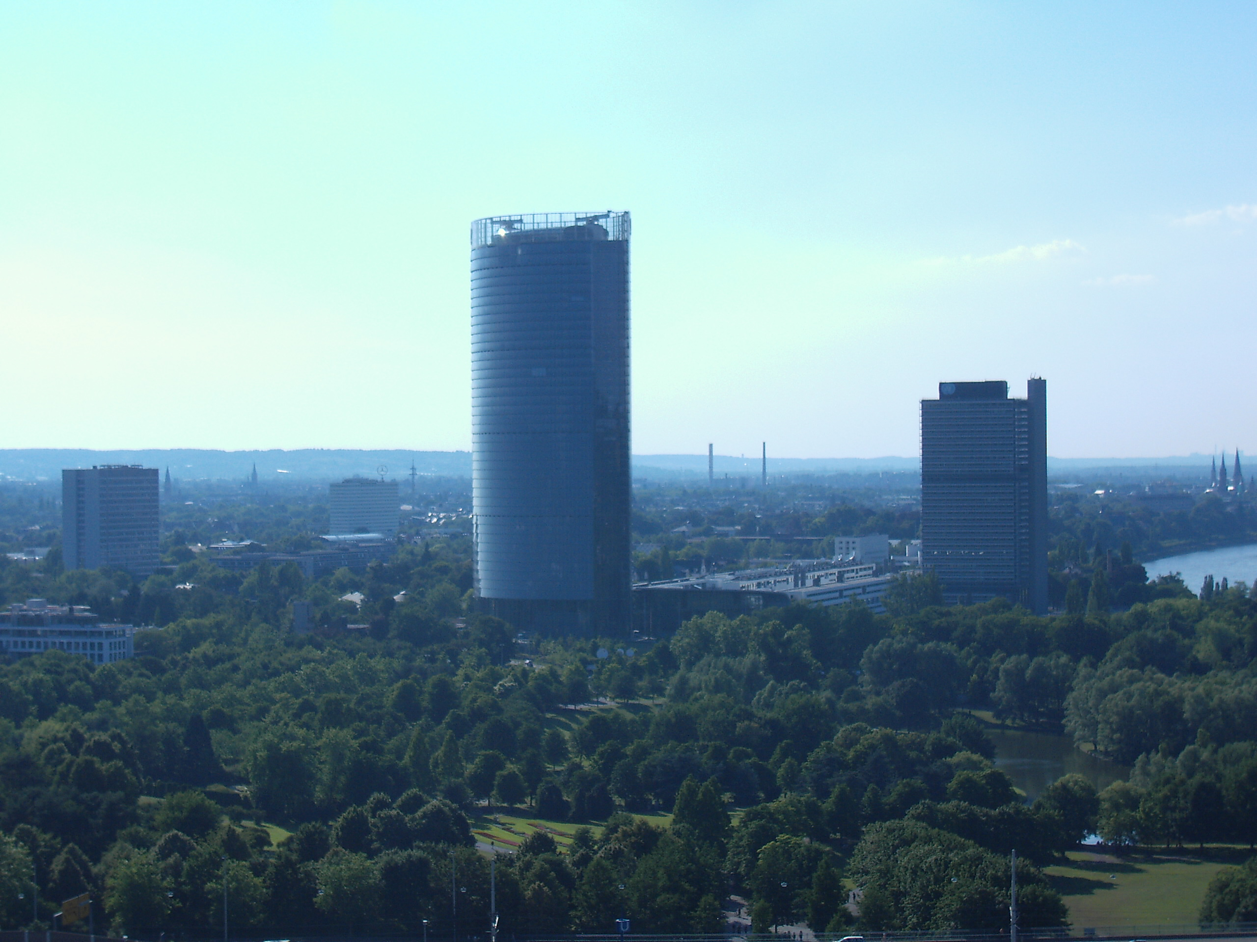 Rheinaue Leisure Park in Bonn with Post Tower, Schürmann-Bau and Langer Eugen.